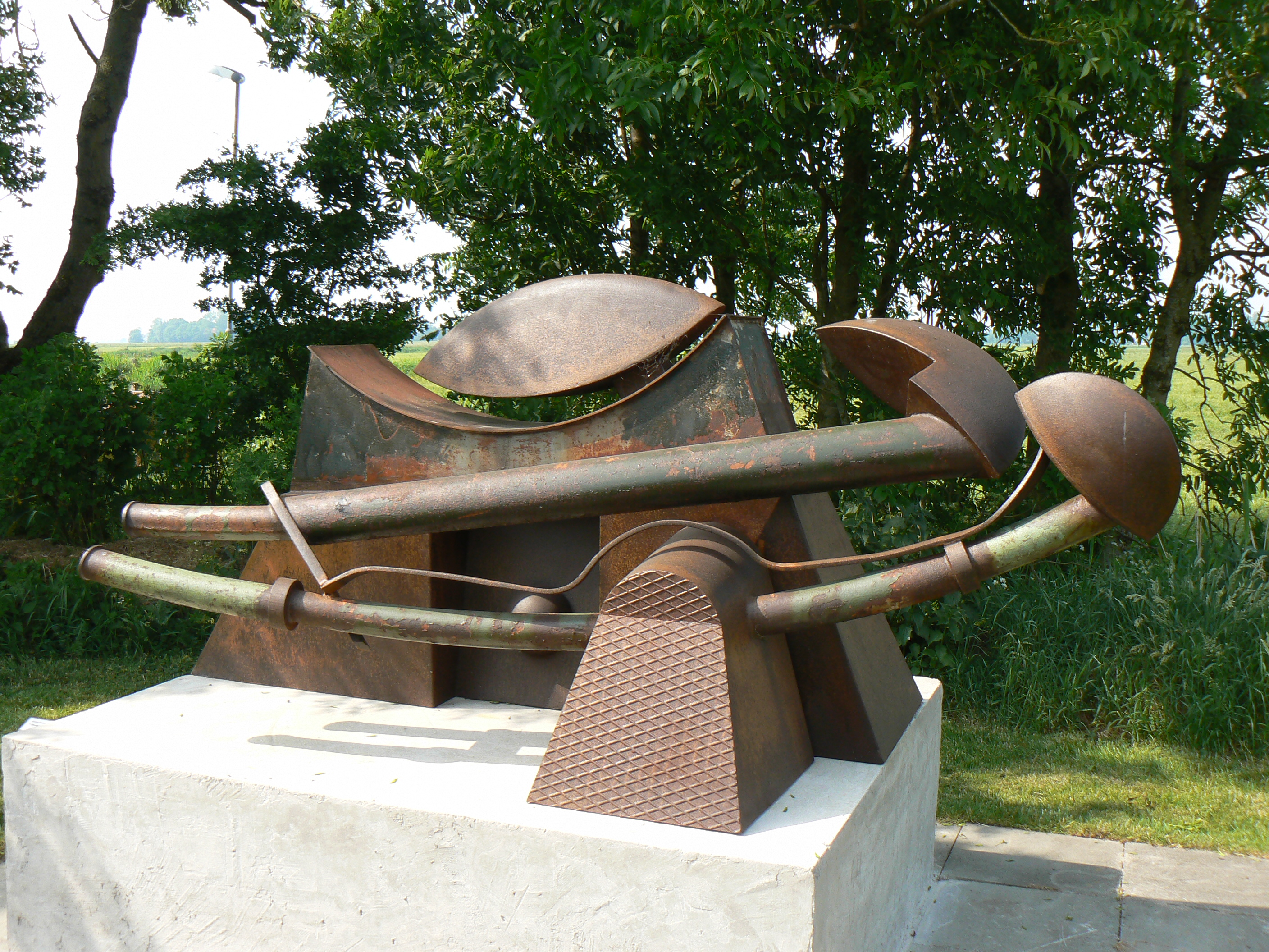 Sculpture Tanzgabel (1989) by Klaus Duschat in Funnix/Germany